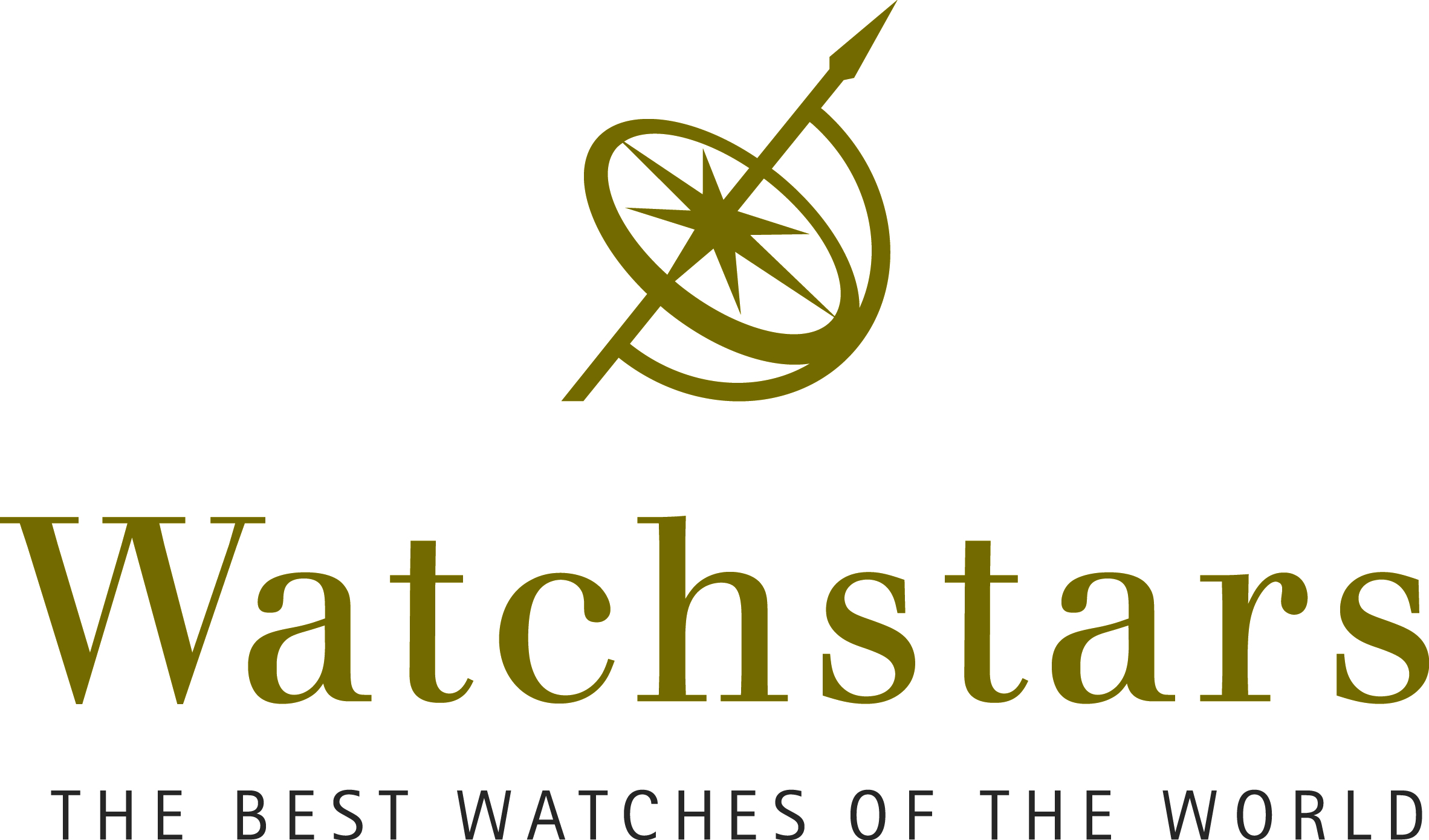 Watchstars - The best watches of the World. Official Logo.